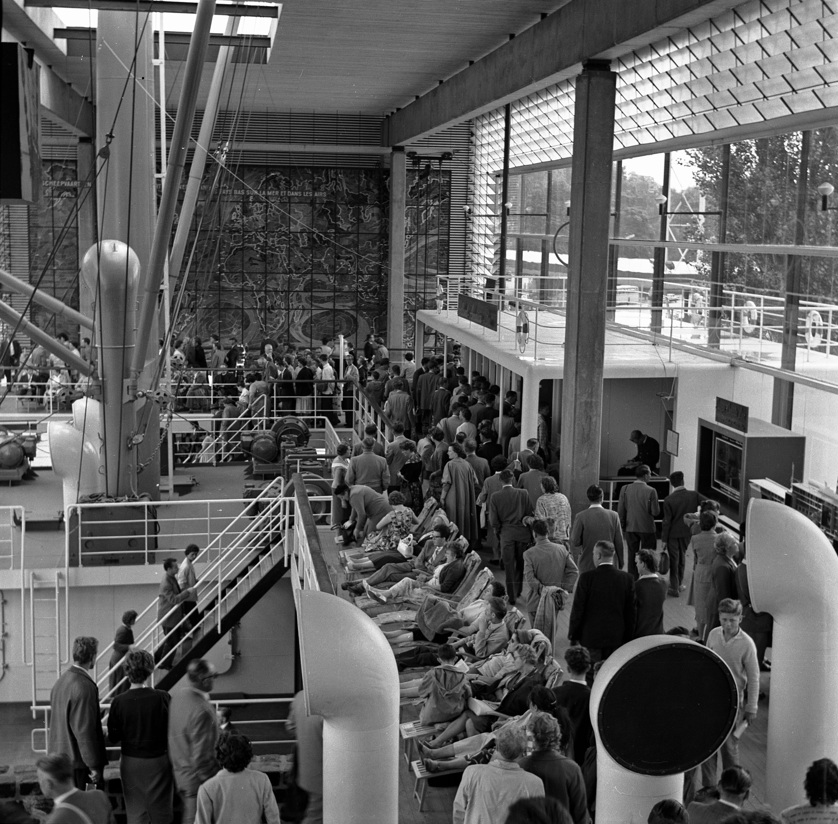 Expo 1958 part of a ship in the Dutch building